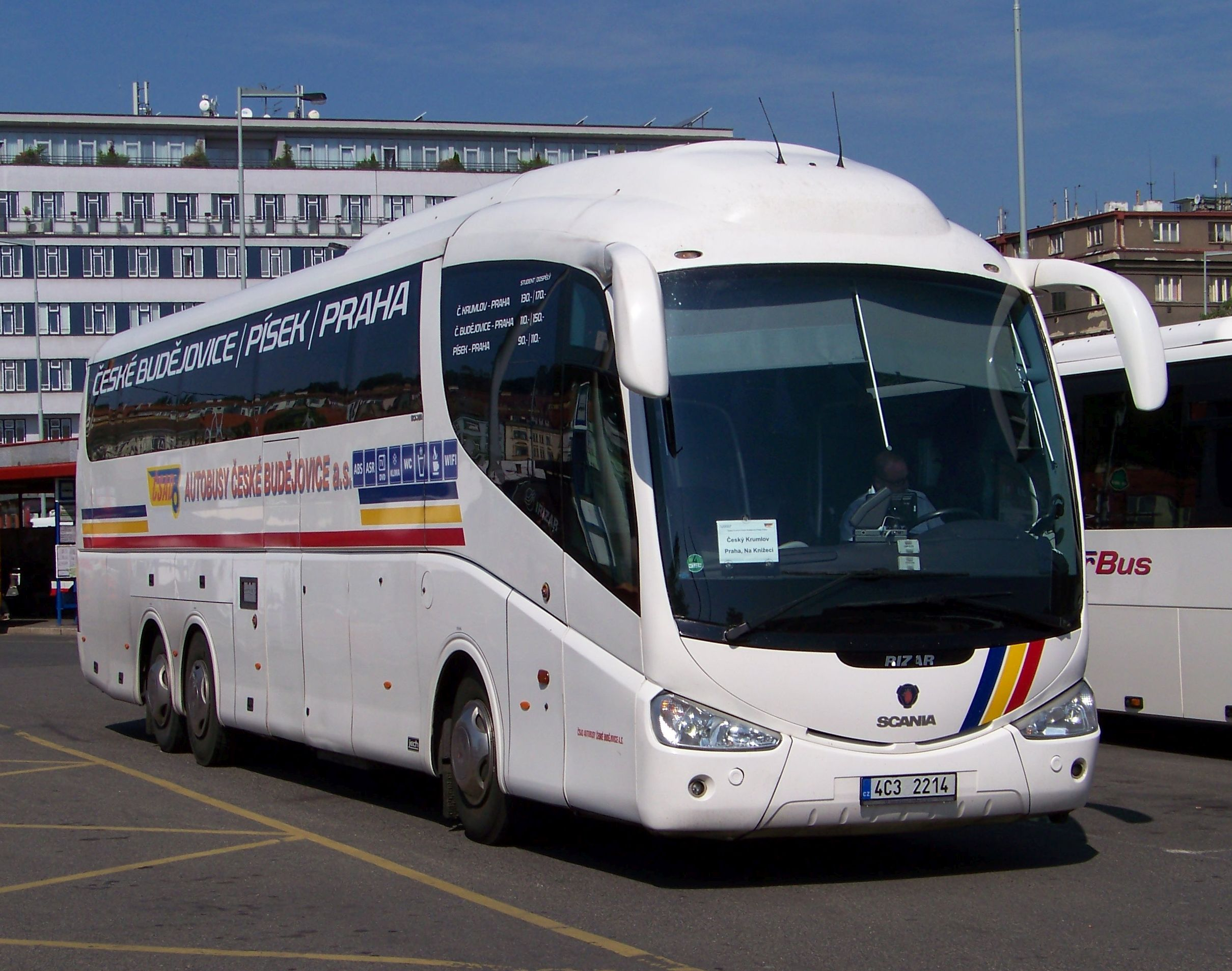 Prague-Smíchov, Czech Republic. Bus station Praha, Na Knížecí. Scania Irizar of ČSAD AUTOBUSY České Budějovice.